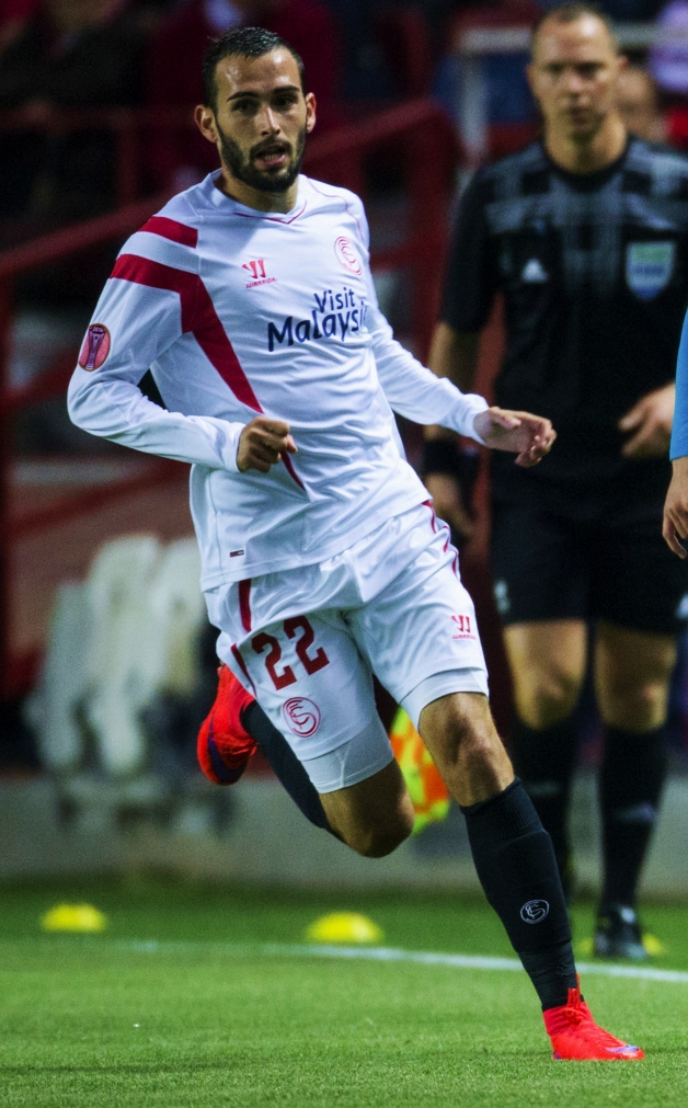 16.04.2015. Испания, Севилья, стадион «Эстадио Рамон Санчес Писхуан». Лига Европы УЕФА 2014/2015, 1/4 финала, «Севилья» — «Зенит». На снимке Aleix Vidal.